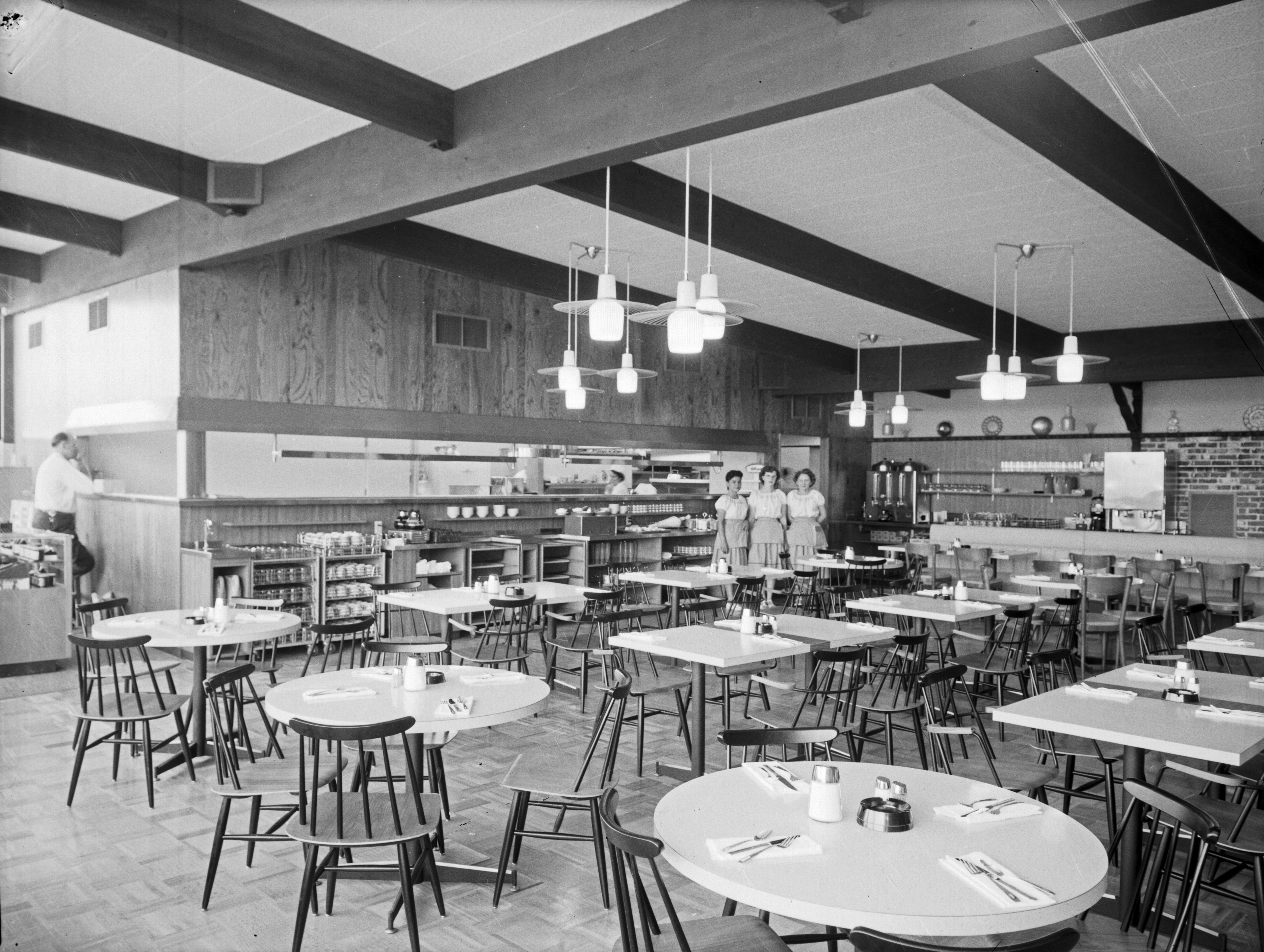 Clark's Pancake House at Pacific Highway South and South 151st St. south of Seattle. (That's near where Pacific Highway South meets Military Rd. S. On flickr, someone suggested this could now be the "Pancake Chef in Seatac". A Google search shows Pancake Chef at 15215 Military Rd. S., which I believe is Tukwila. I think they're probably wrong about it being the same place though I've never seen the building. I'll try to check it out some time. - Jmabel)